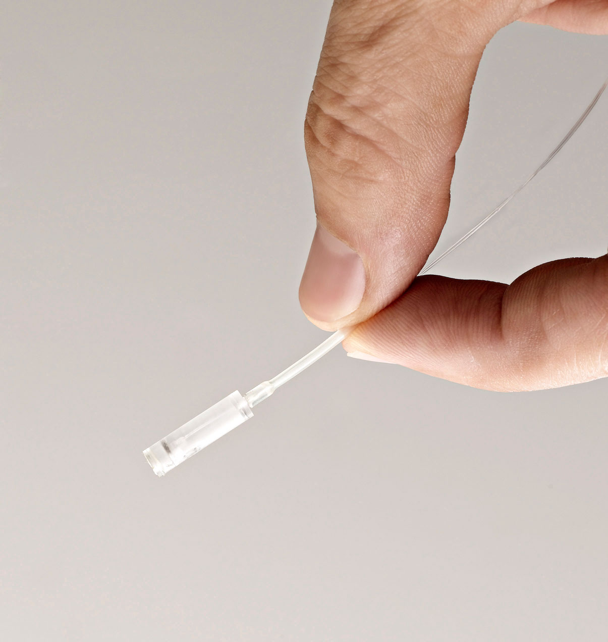 The Optoacoustics OPTIMIC 1140 is a standard lightweight fiber optical microphone.